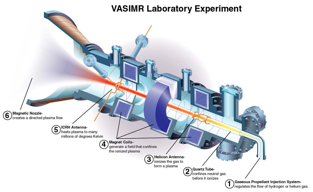 The Variable Specific Impulse Magnetoplasma Rocket (VASIMR) is an electro-magnetic thruster for spacecraft propulsion. It uses radio waves to ionize a propellant and magnetic fields to accelerate the resulting plasma to generate thrust.